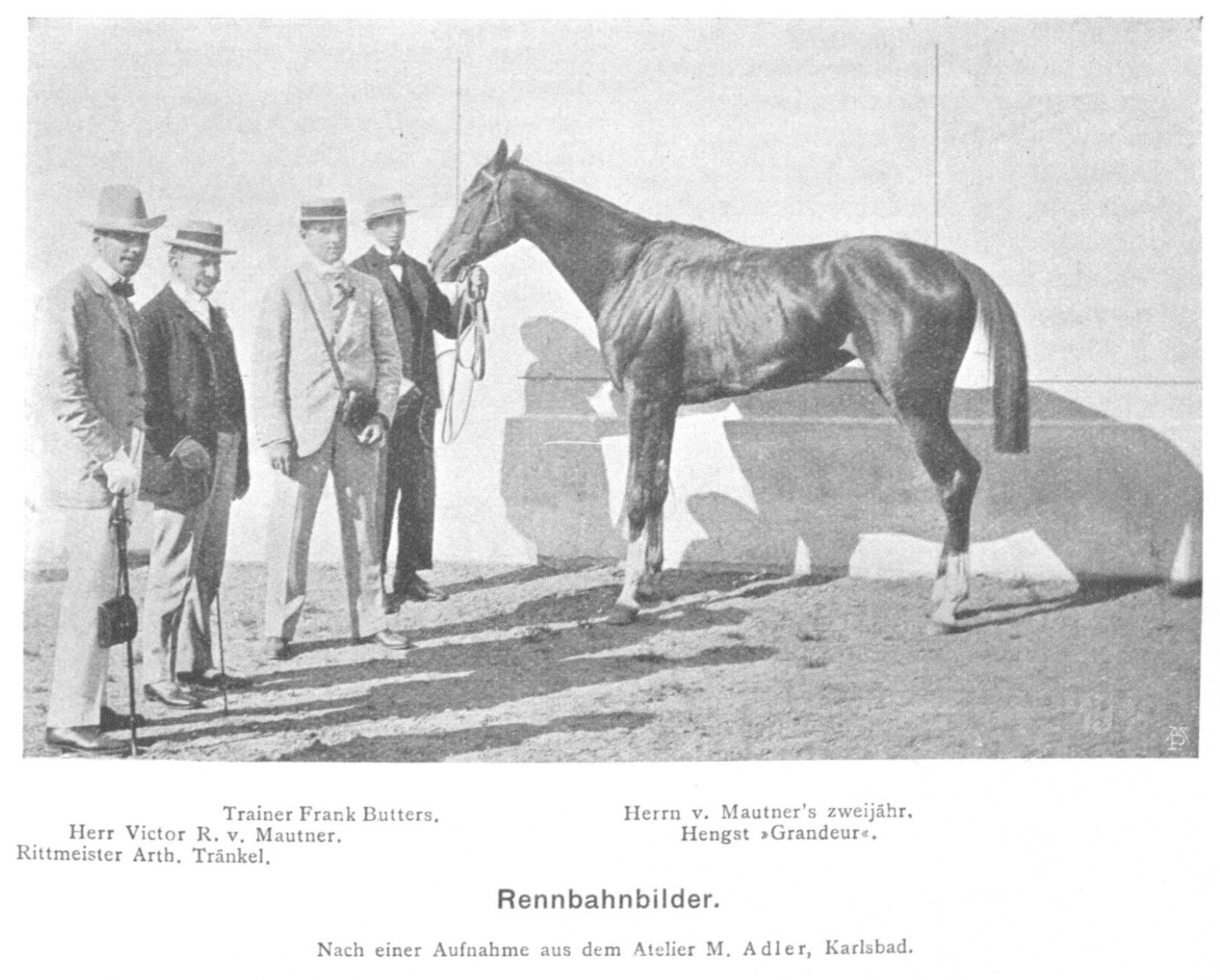 A racetrack picture: Jockey Arthur Tränkel, Mr. Victor von Mautner, horse trainer Frank Butters and an unidentified fourth person next to Mr. Mautner's two-year old stallion "Grandeur".